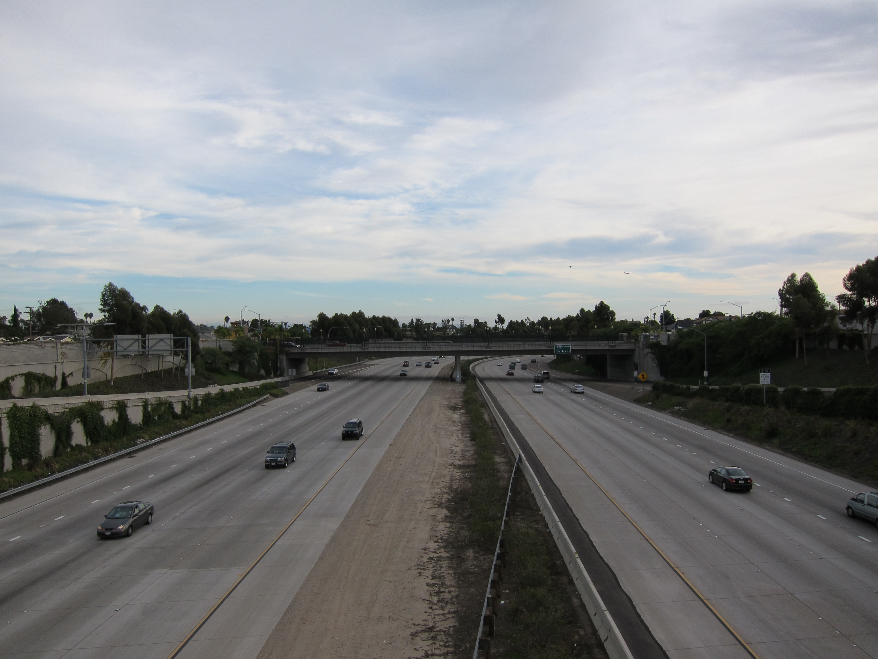 California State Route 15 taken from Unversity Avenue overpass in City Heights, San Diego, California